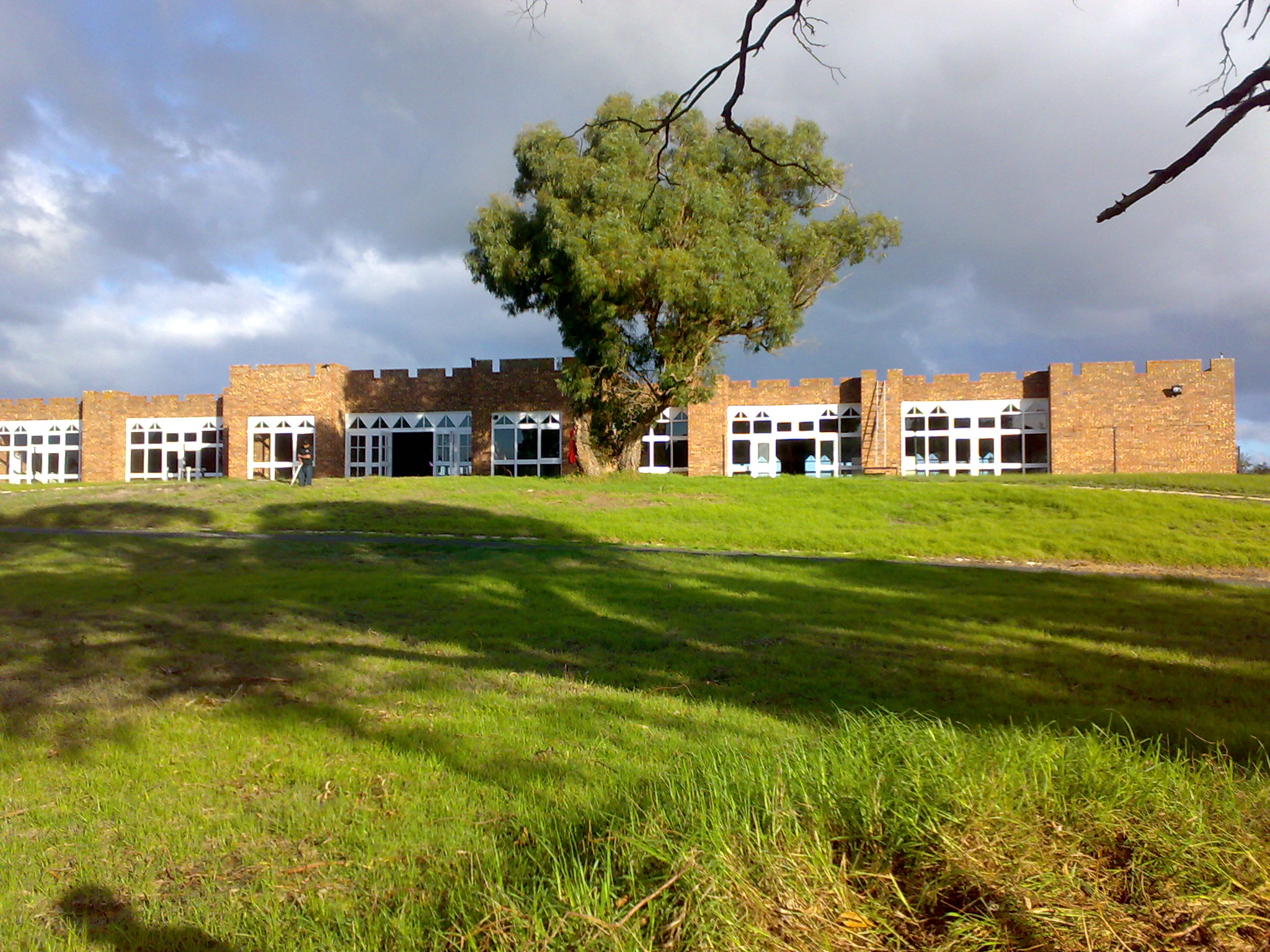 Ahmadiyya Community centre and Mosque Melbourne